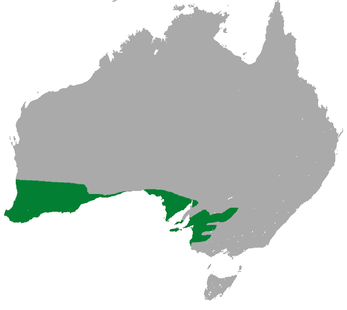 Southwestern Pygmy Possum (Cercartetus concinnus) range